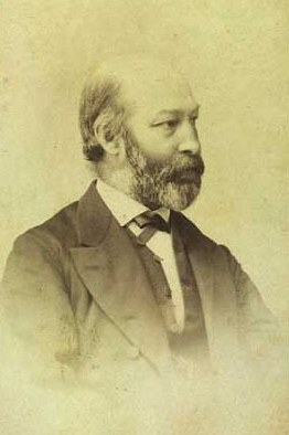 Otto Bernhard Wroblewski (1827-1907), Danish bookseller and publisher